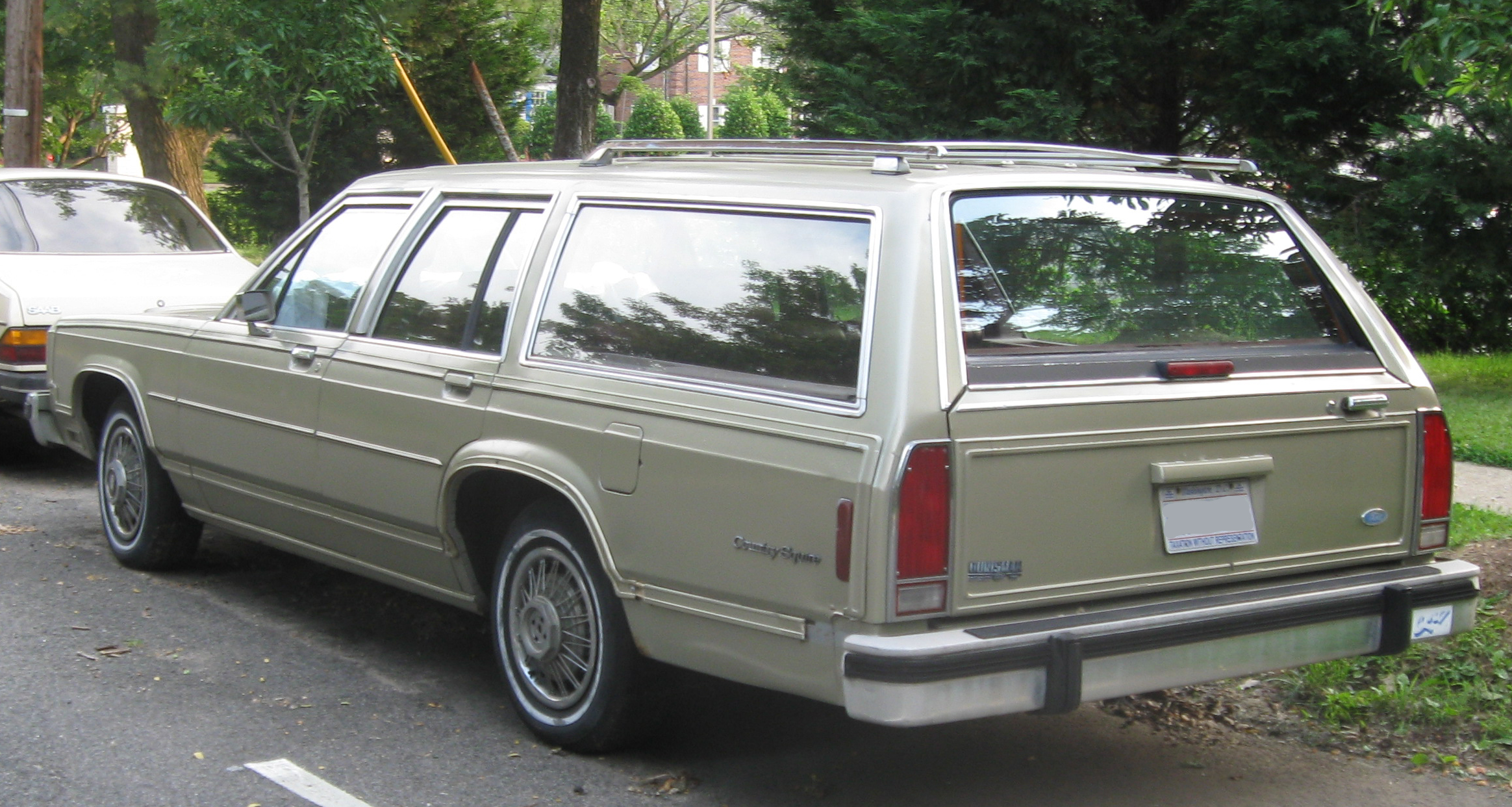 1979-1987 Ford Country Squire photographed in Washington, D.C., USA.